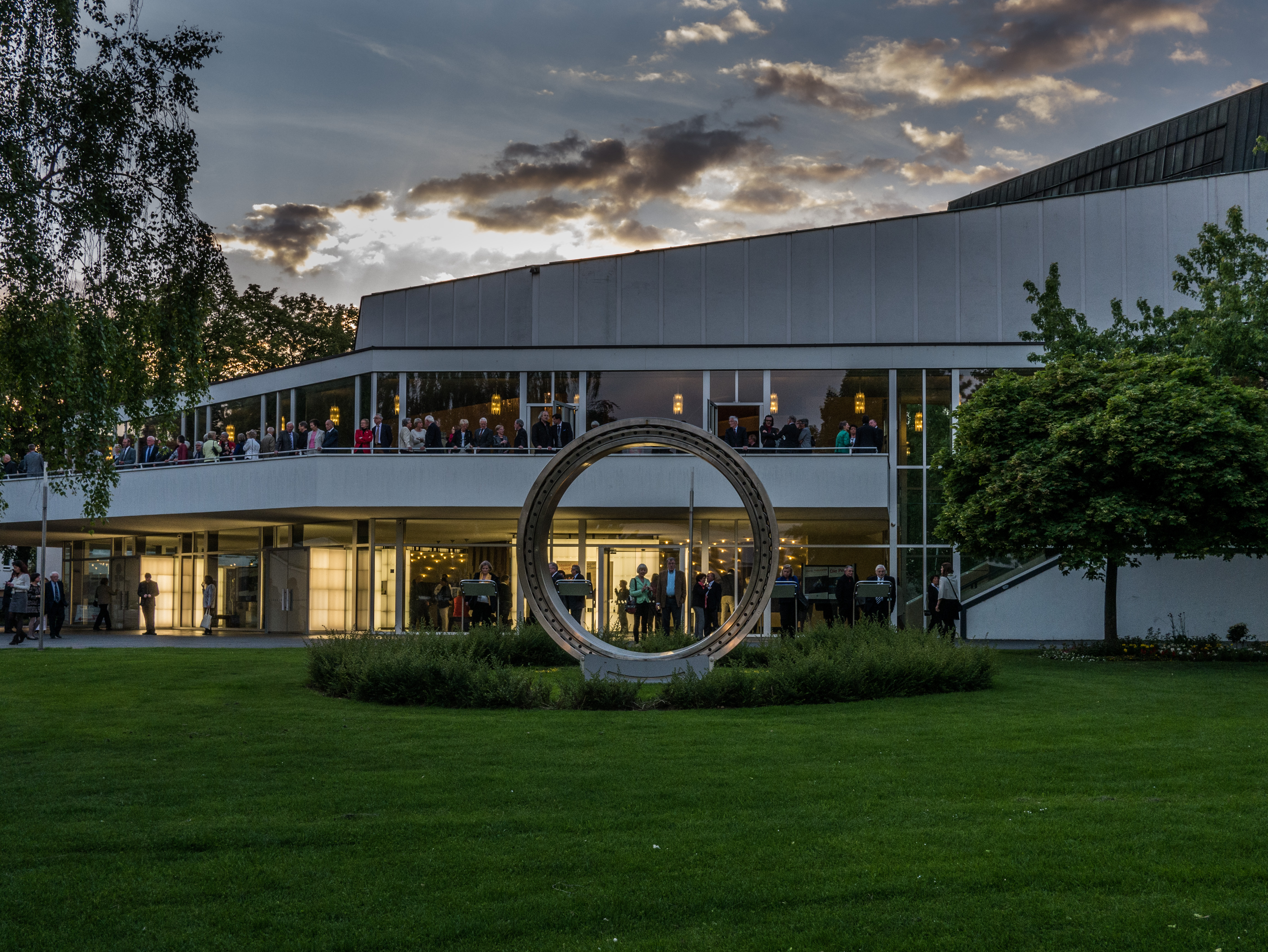 View at the theater in Schweinfurt